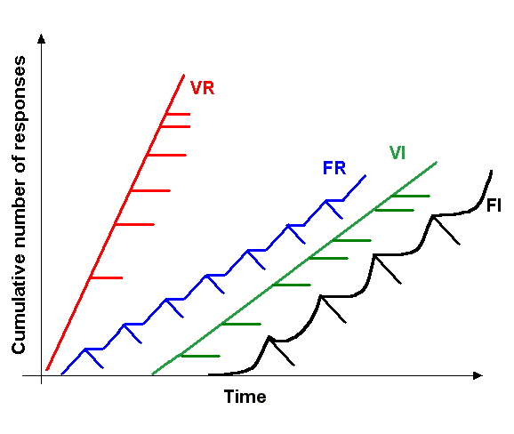 Made this chart from scratch (using MS-paint) based on several psychology textbooks: Chance, Paul. Learning and Behavior 5th edi. Toronto:Thomson-Wadsworth My History in psychology notes, chapter on behaviorism My intro to psych. notes., notes on behaviorism There are better images than this, but whatever. . Contents 1 Automatically converted to PNG 1.1 Previous file history 2 Licensing 3 Original upload log Automatically converted to PNG The PNG crusade bot automatically converted this image to the more efficient PNG format. The image was previously uploaded as "Schedule of reinforcement.gif". Previous file history 04:08:54, 5 July 2005 (UTC) . . Janarius (Talk